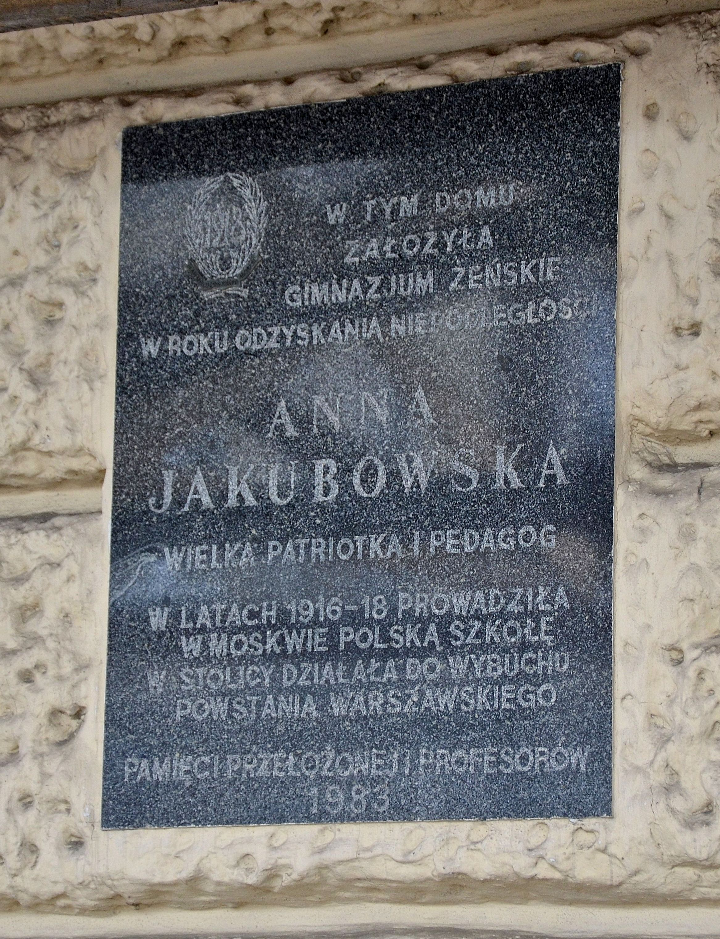 Plaque in memory of Anna Jakubowska on the facade of the pod Gryfami tenement house in Warsaw